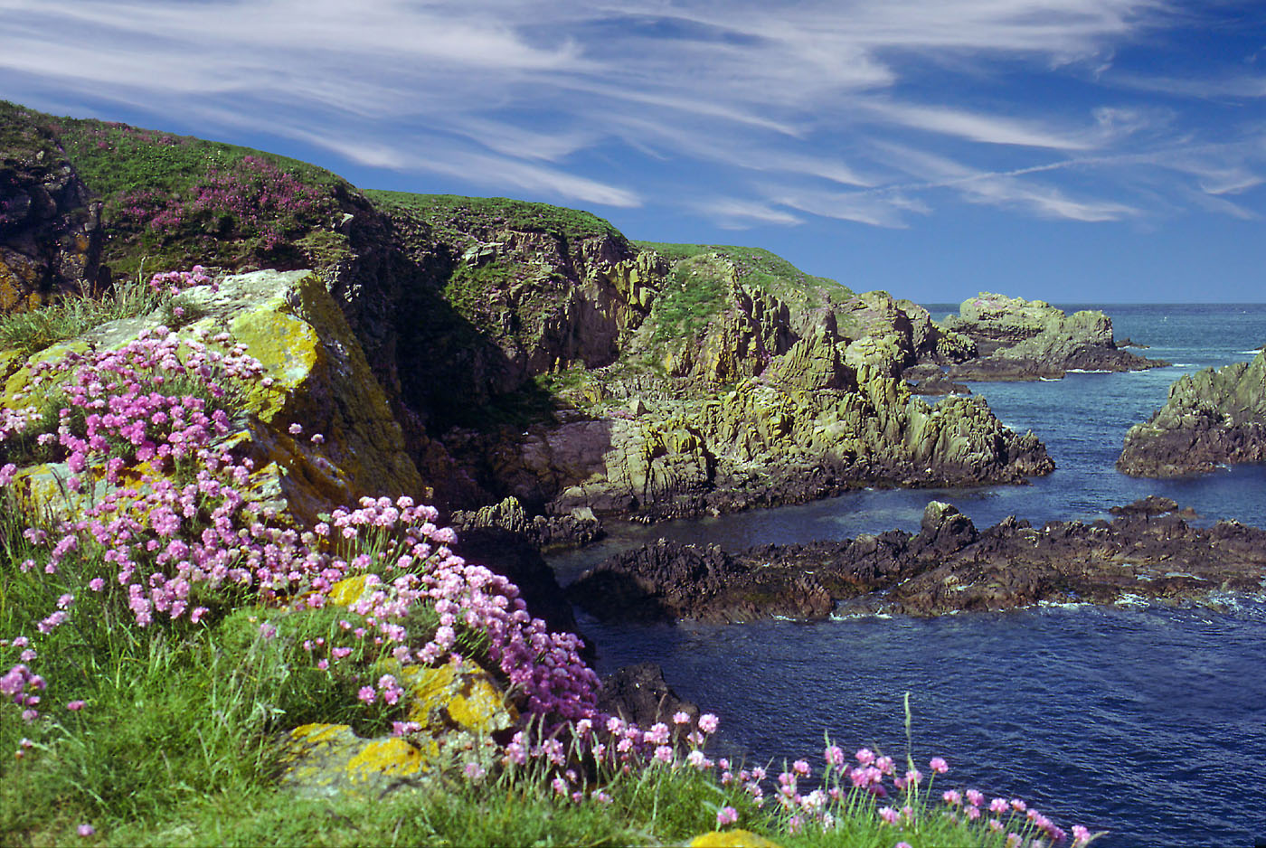 Typical coastline between Cruden Bay and Peterhead, Aberdeenshire.